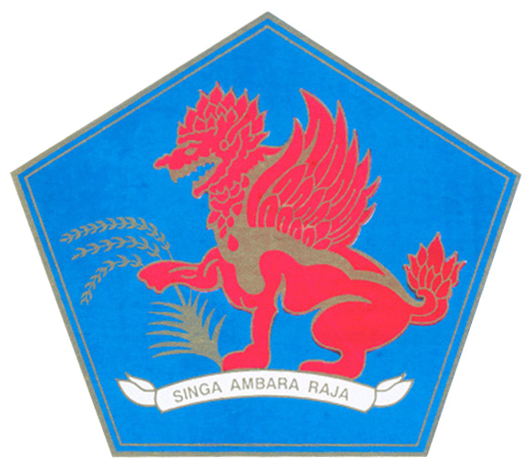 Coat of Arms (Lambang) of Buleleng Regency, Bali, Indonesia